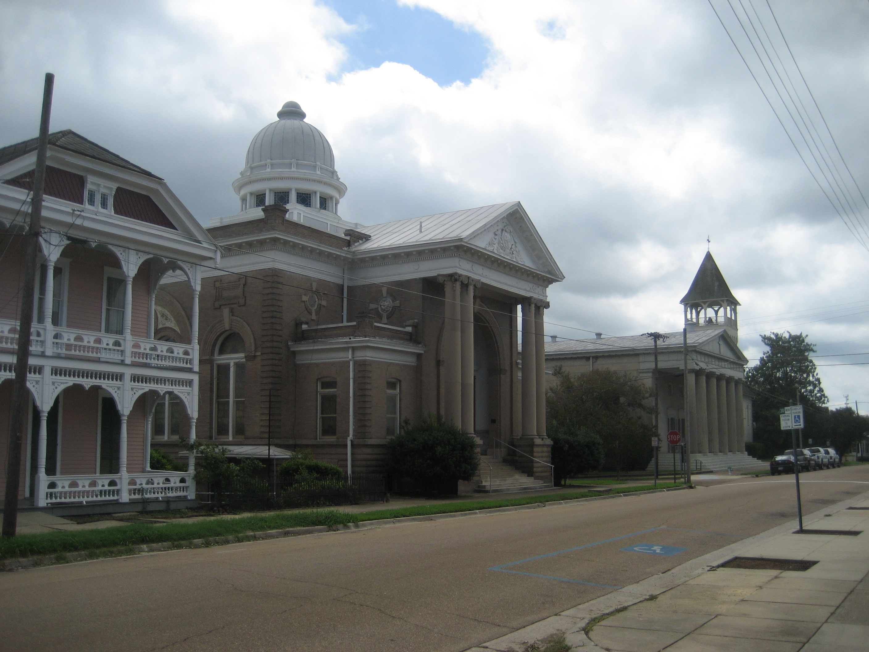 Old section of Natchez, Mississippi. B'Nai Israel Temple.